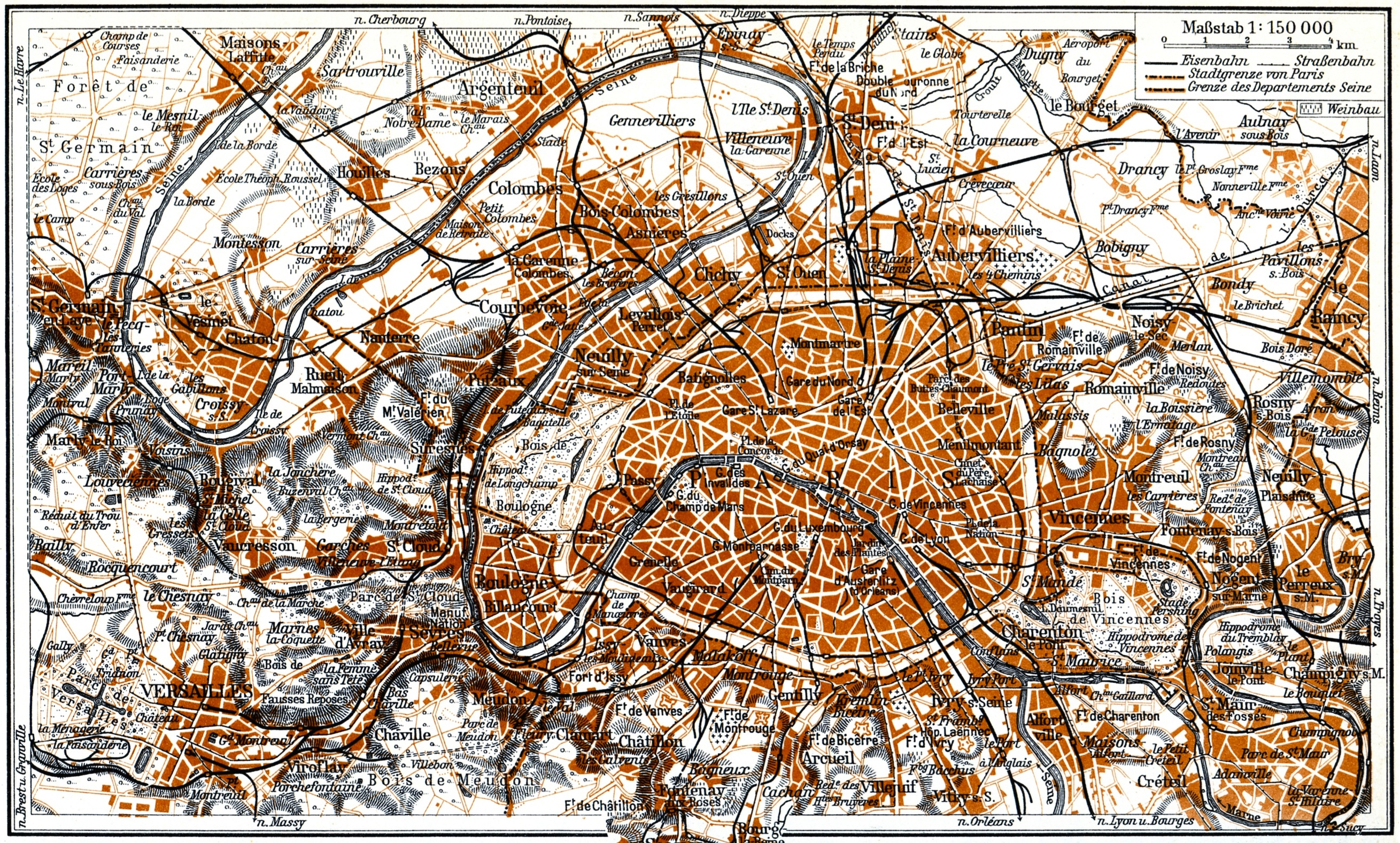 Paris, 1937 (Der Neue Brockhaus (1937), vol. 2)